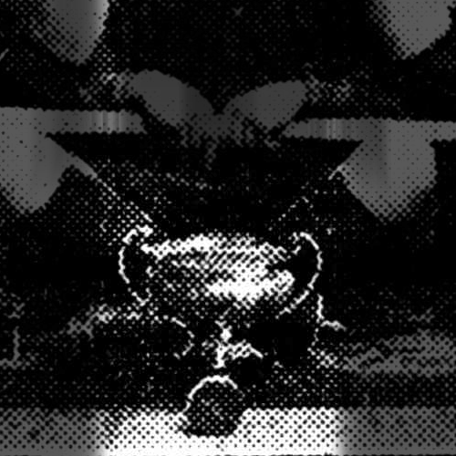 The only known image of an earlier version of the Goodall Cup, the oldest Australian Ice hockey trophy. Taken in 1913 as part of a team photo.;Other information: This is a cropped an fully zoomed in view of the only known image of a version of the Goodall Cup that predates the current version.